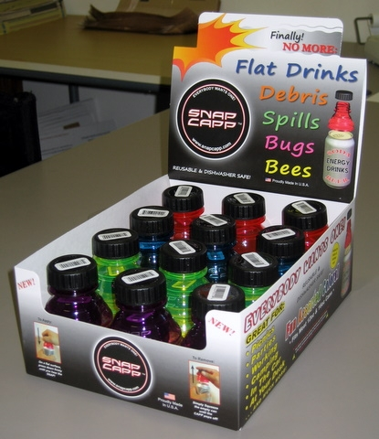 Caddy of Snap Capps